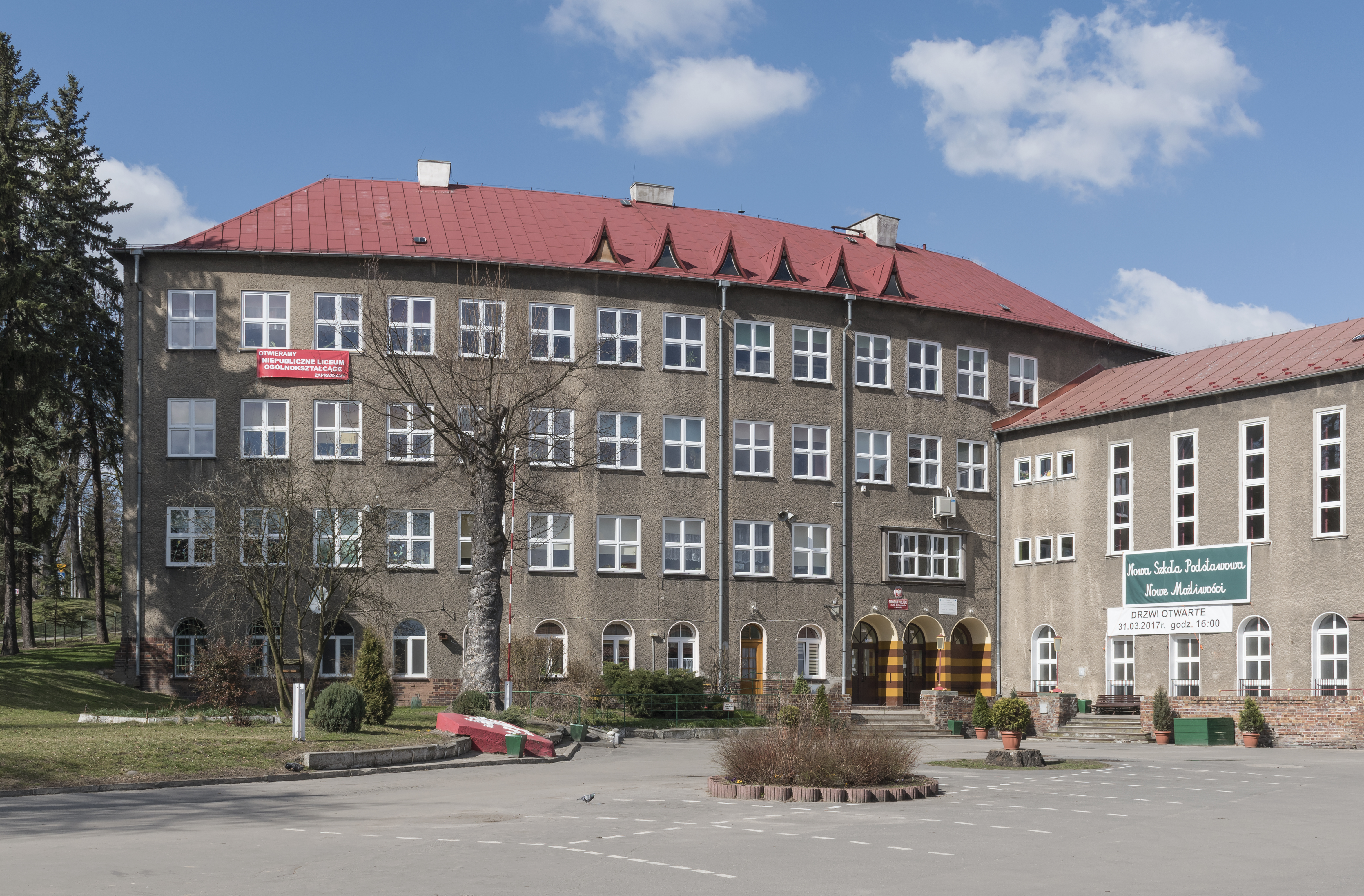 Commune Gimnazjum in Kłodzko